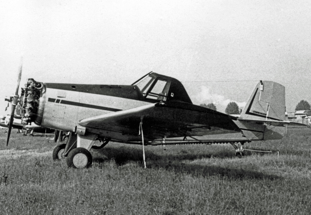 Snow Commander S2D N1796S at the 1967 Paris Air Show